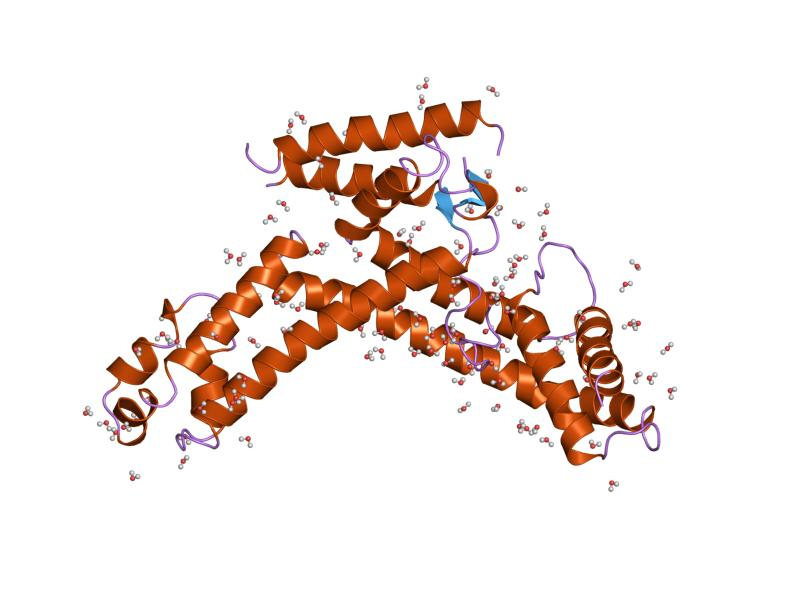 Cartoon representation of the molecular structure of protein registered with 1sig code.